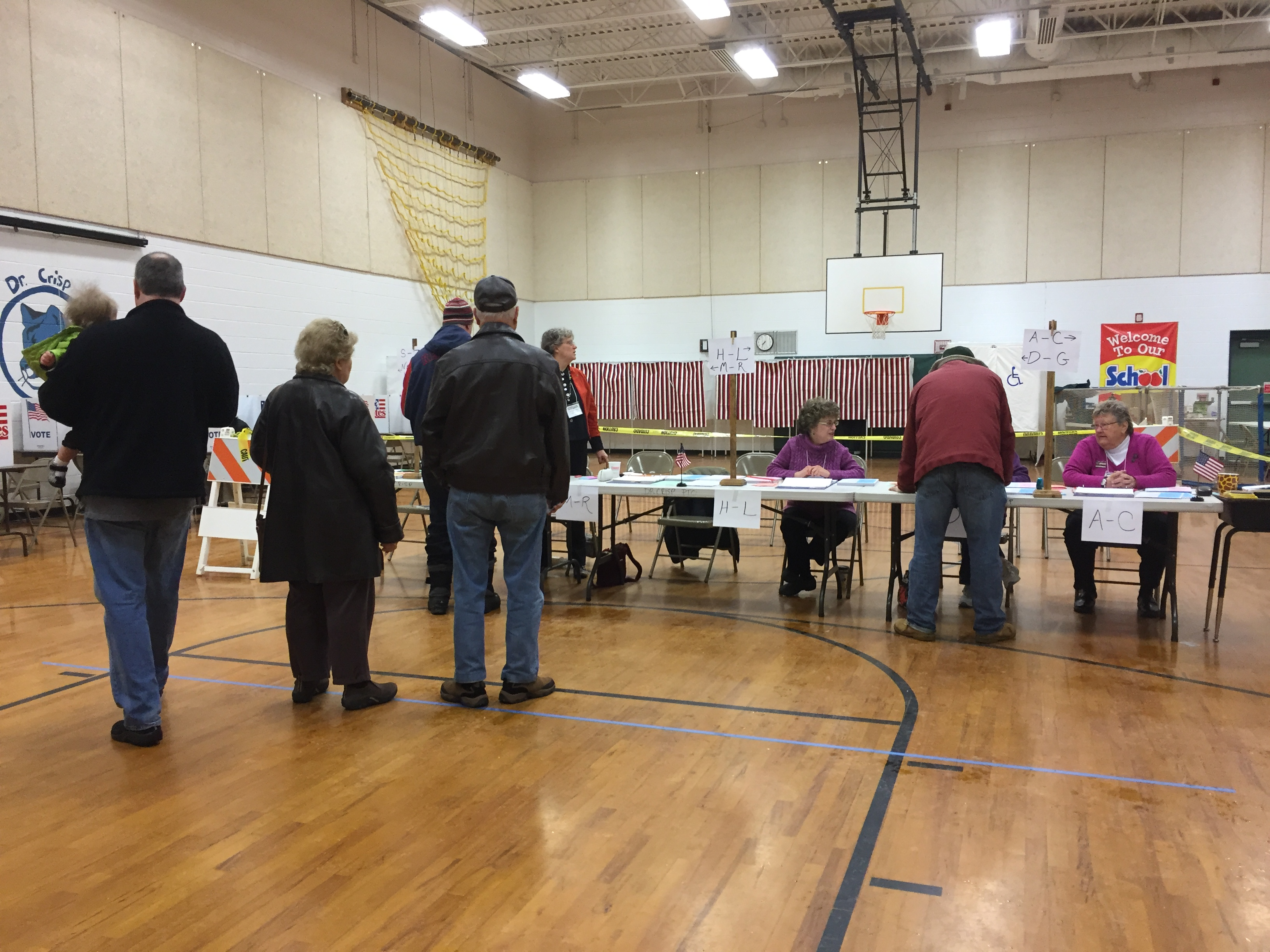 Early voting at Ward 7 in Nashua, New Hampshire. (Sasha Gong/VOA)